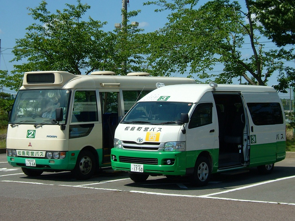 Matsushima town (Miyagi prefecture,Japan) bus